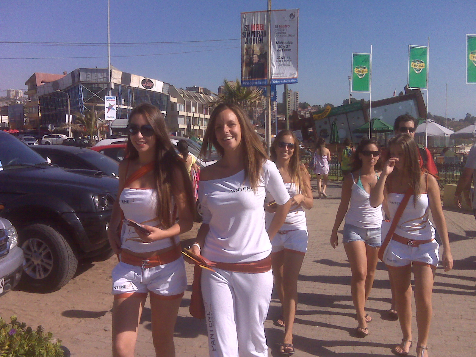 Models from Chile. Some of the beautiful women who can be found all over Planet Earth.